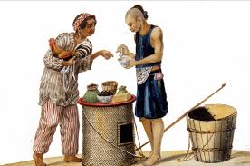 Tipos del País (19th Century Watercolor) by José Honorato Lozano